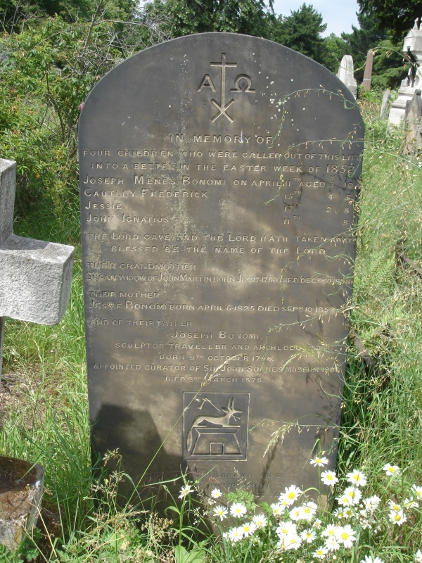 Grave of Joseph Bonomi the Younger, Brompton Cemetery.